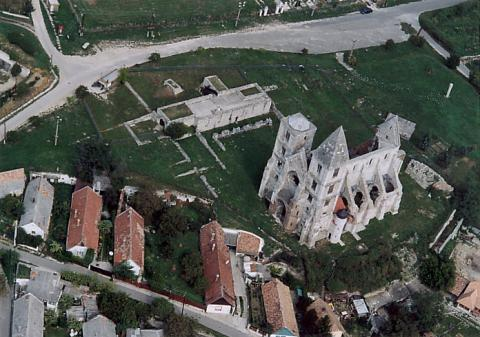 Zsámbék, temple ruins, Hungary, aerialphototgraphy